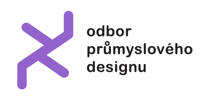 logo OPD FSI VUT Brno